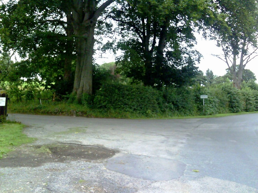 The junction on Burrill Road where it enters Bedale